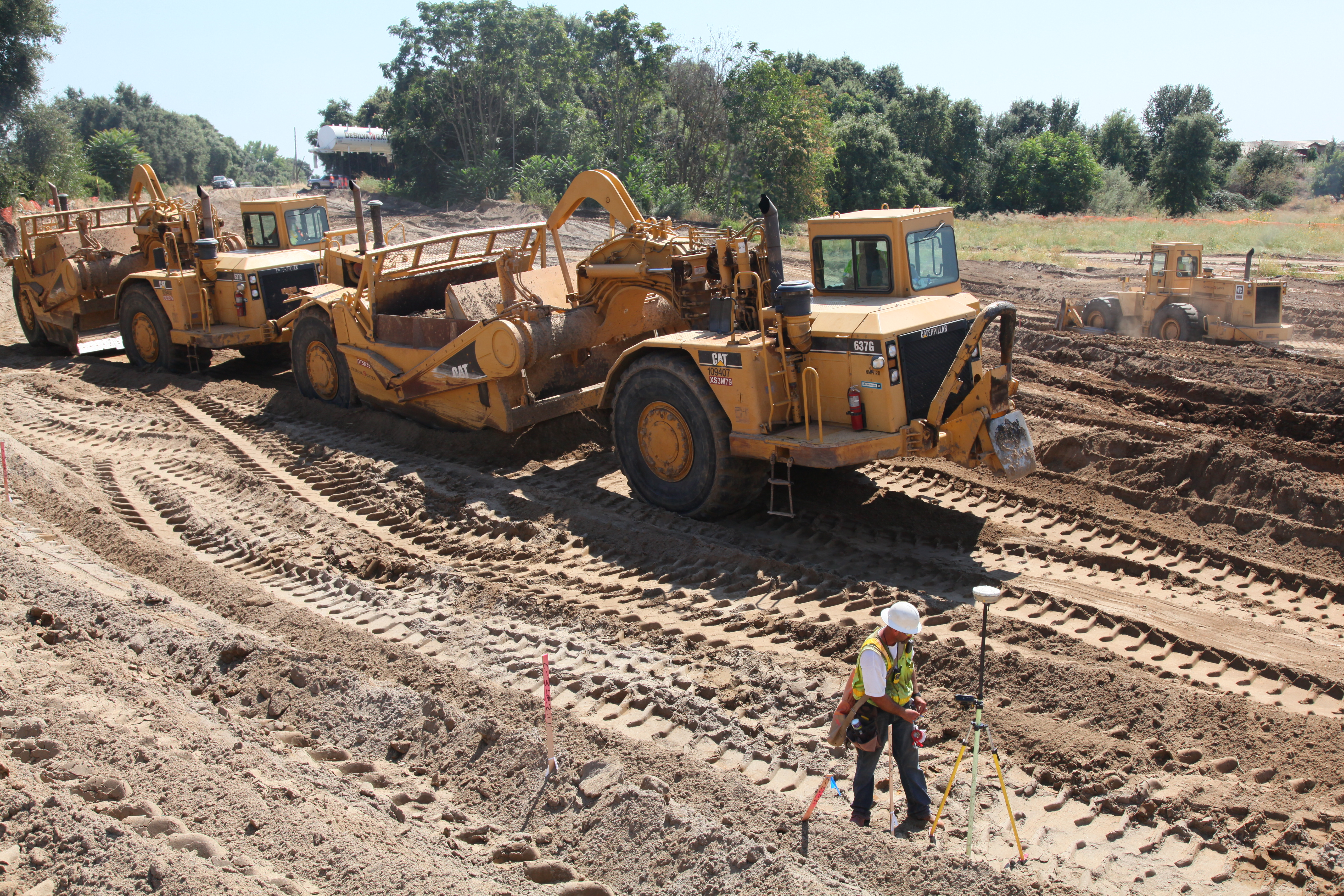 Crews construct the new setback levee Sept. 7 along South River Road in West Sacramento as part of a joint effort between the U.S. Army Corps of Engineers and the Central Valley Flood Protection Board to upgrade levees along the Sacramento River and its tributaries. (U.S. Army Photo/Michael J. Nevins)